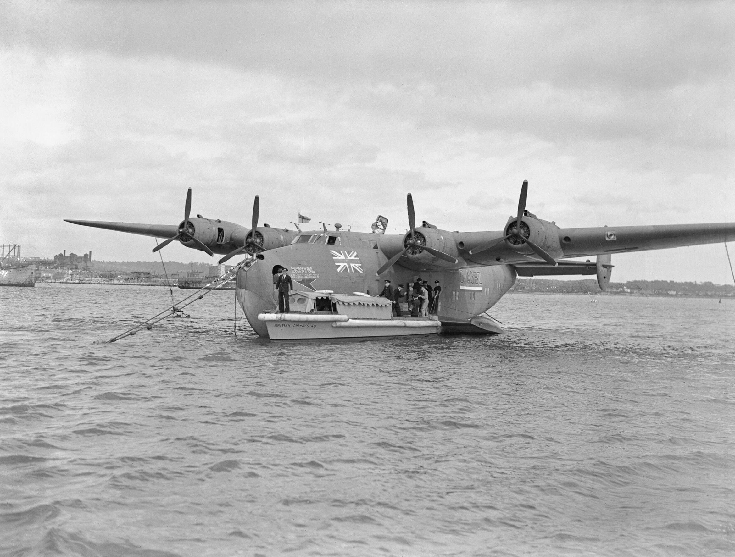 British Overseas Airways Corporation and Qantas, 1940-1945. A BOAC tender comes alongside Boeing Model 314A Clipper flying boat, G-ABGZ "Bristol", at Poole, Dorset, to take ashore Digvijaysinhji Ranjitsinhji, the Maharajah Jam Sahib of Nawanagar and Sir A Ramaswamy Mudaliar who arrived from India for talks with the War Cabinet.